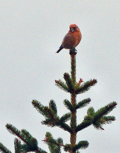 Male Parrot Crossbill (Loxia pytyopsittacus) sitting in a Spruce tree. Picture taken at Smithska udden, Gothenburg, Sweden.